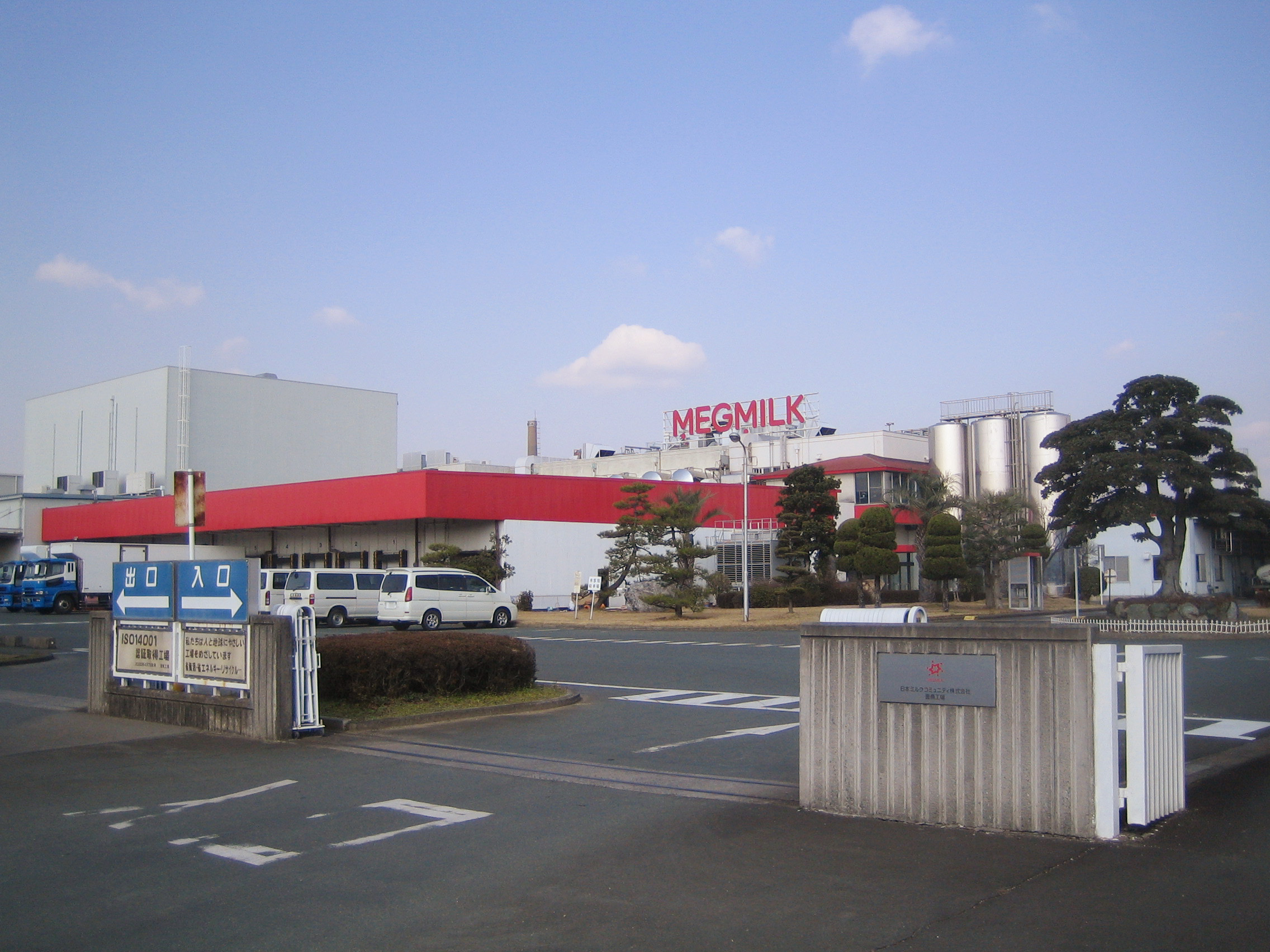 Nippon Milk Community (日本ミルクコミュニティ), in Kozakai, Aichi, Japan